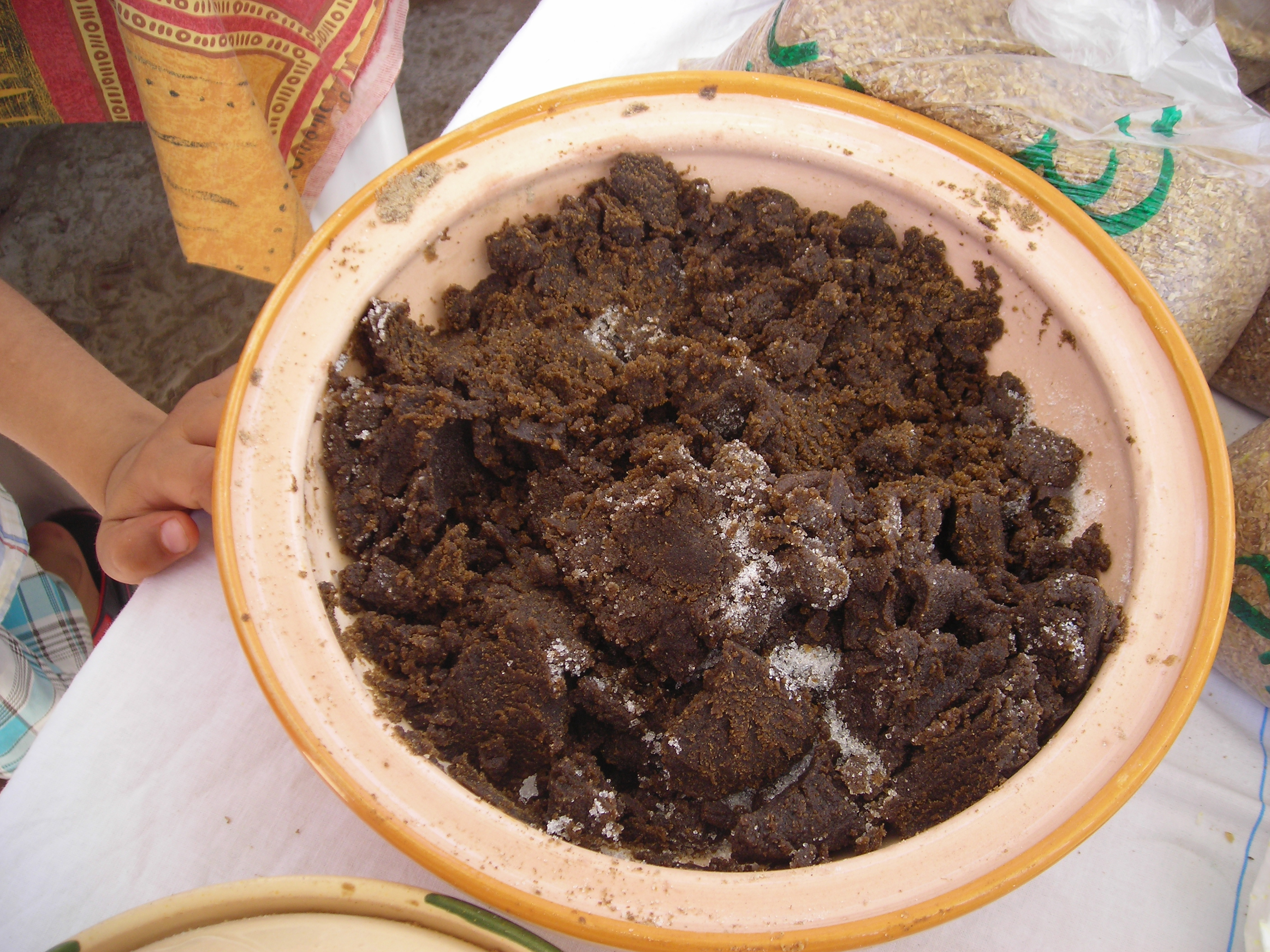 Barley Bsissa